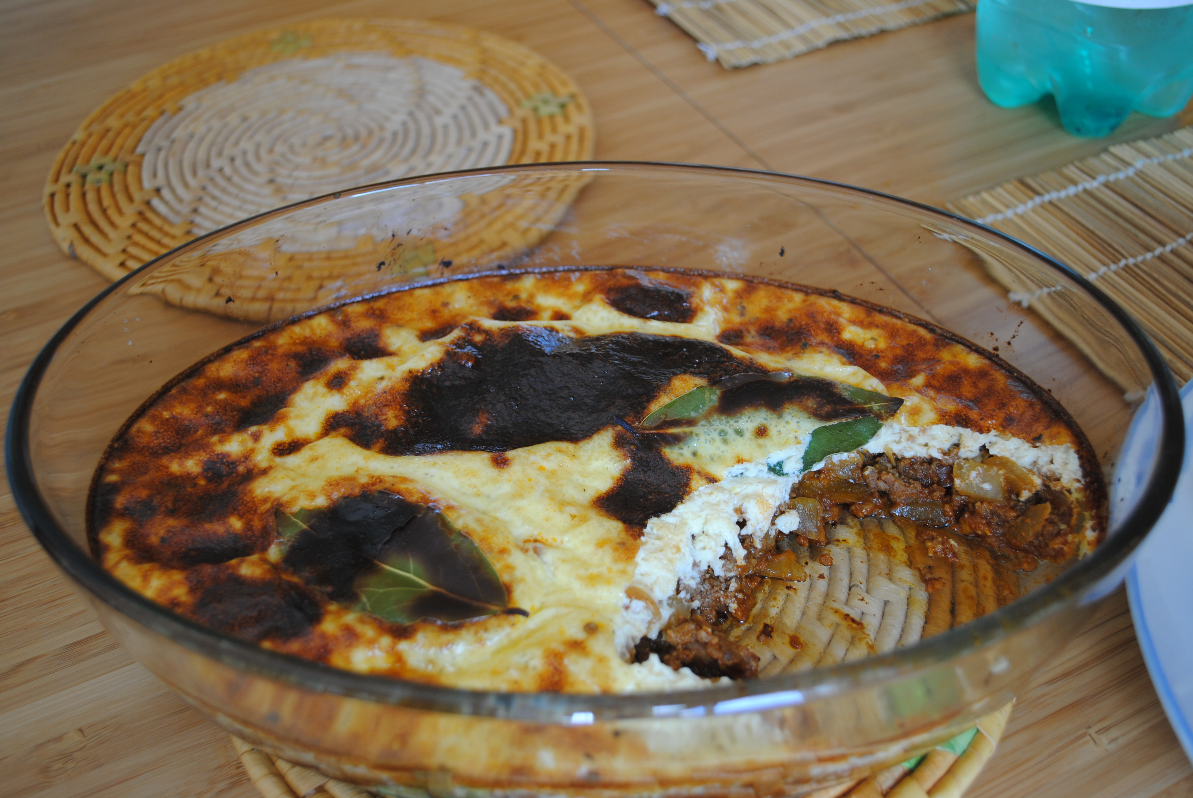 Bobootie, a South-African dish made with minced meat, spices, egg and milk This is an image of food from South Africa